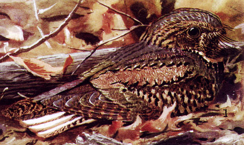 Chuck-will's-widow Caprimulgus carolinensis, male, offset reproduction of watercolor